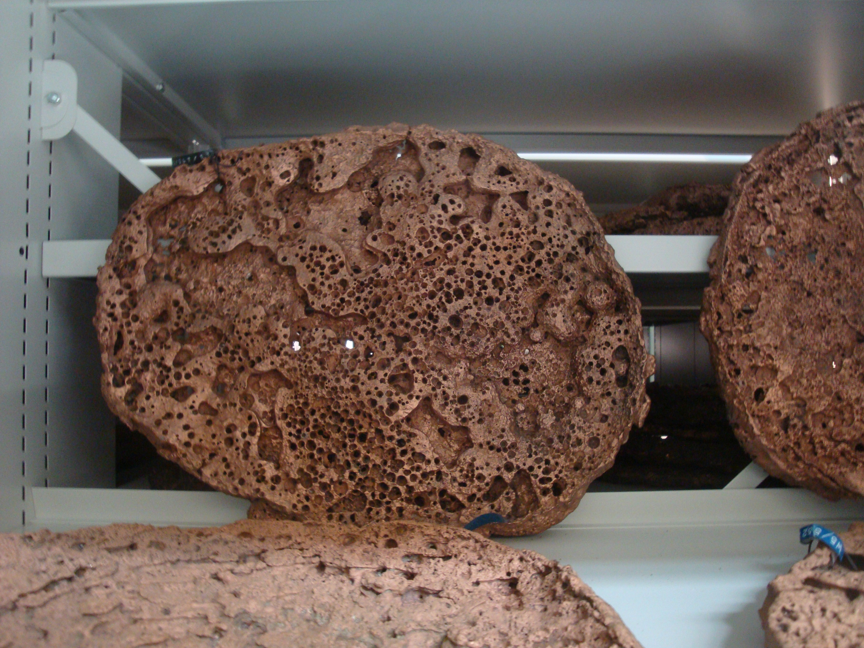 Copper ingots from cargo of MIedziowiec on exhibition in Centrum Konserwacji Wraków Staków (Shipwreck Conservation Centre) in Tczew, Poland. "Miedziowiec" (The Copper Ship) - wreck of medieval ship, which sunk in 1408. Discovered in 1969, delivered many valuable artefacts.